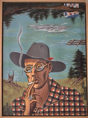 Arnold Rönnebeck (May 8, 1885 – November 14, 1947) was a German-born American modernist artist and museum administrator